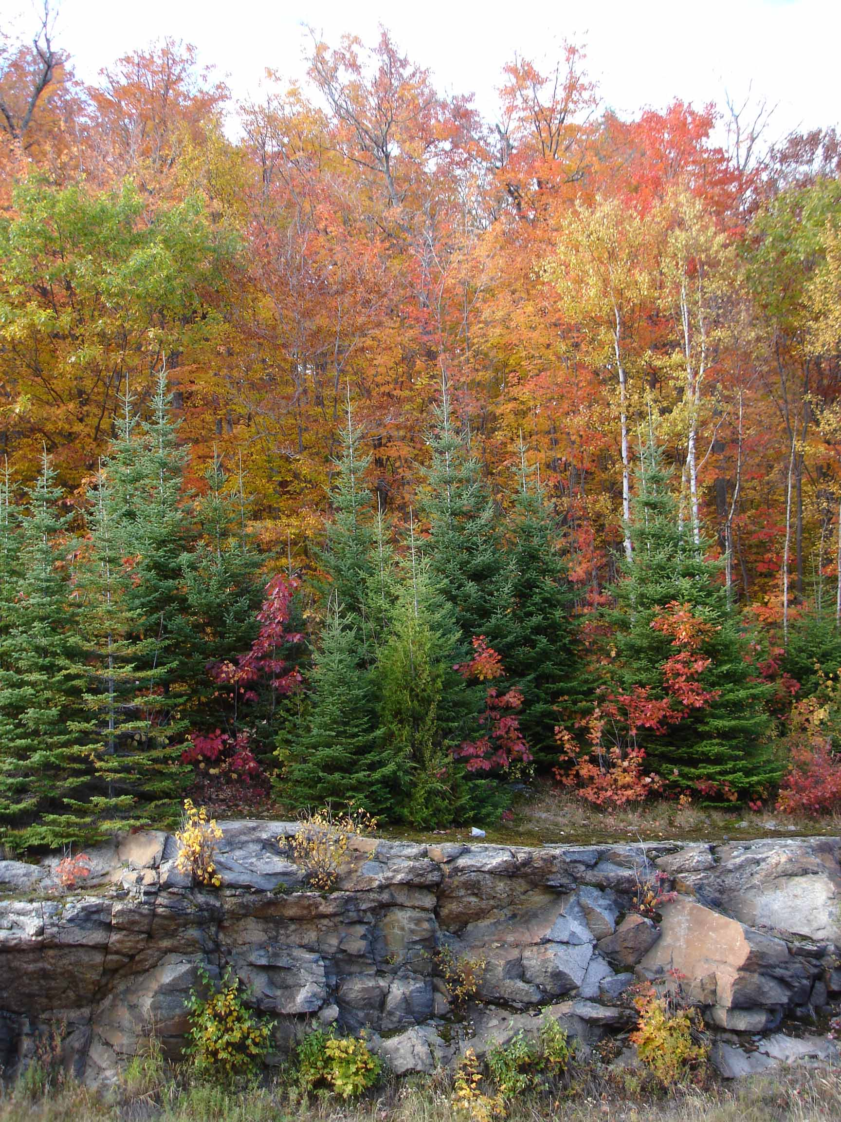 Fall Foliage in Algonquin Park Taken by User:Jok2000 October 10, 2004 in Algonquin Provincial Park, Ontario, Canada